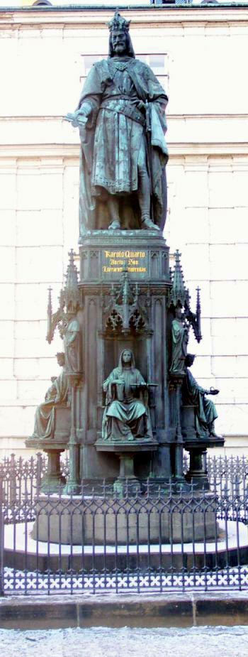 Statue of Charles IV., Holy Roman Emperor, in Křižovnické Square. A monument placed nearby Charles Bridge, Prague in 1848 to commemorate the 500th anniversary of establishing the University of Prague by Charles IV (woman statues around the pedestal symbolize faculties of the university). It is an iron statue by Arnost Händel from Dresden.